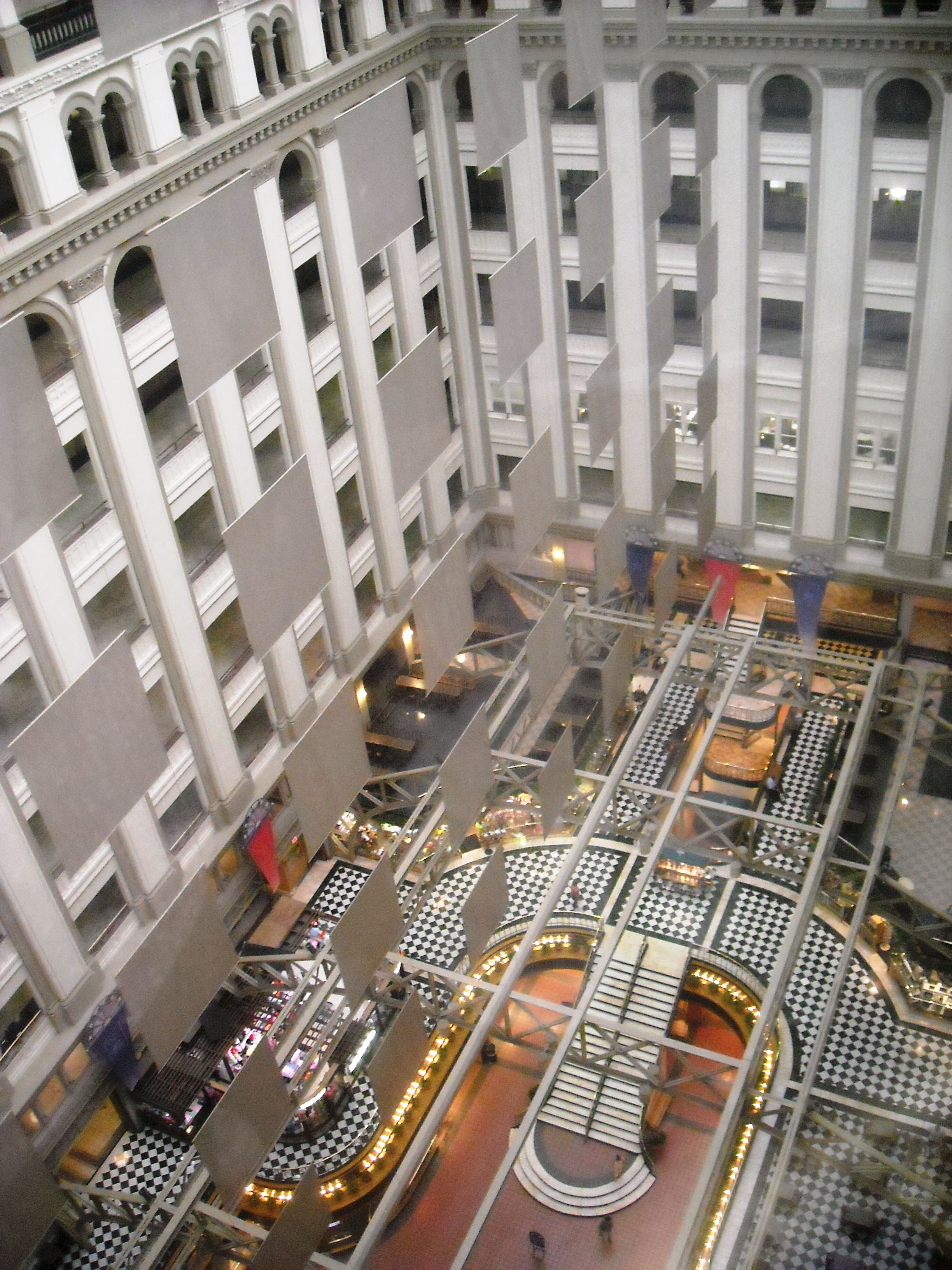 Old Post Office and Clock Tower